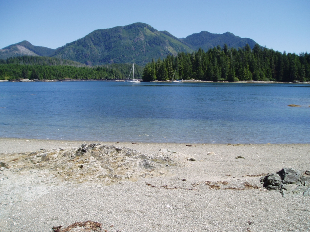 Two sailboats anchored near Big Bunsby Marine Provincial Park, BC, Canada.